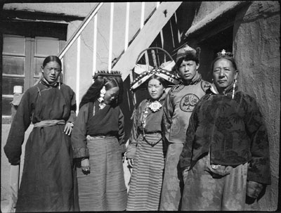 Chime Taring, Pemba Tsering's wife, Miss Taring, Jigme Taring, Raja Taring Left to Right: Shime Taring, Mrs Pemba, Miss Taring, Jigme Taring and Taring Raja, who had been invited to lunch at the Fort in Gyantse where the British Trade Agency staff resided. Mrs Taring and Mrs Pemba wear elaborate head-dresses, while Jigme Taring and Taring Raja wear silk brocade chuba.